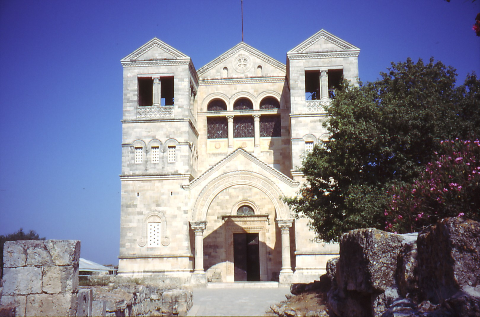 Church on Mount Tabor in the Galilee in Israel. The Tabor is believed to be the place of the transfiguration of Christ. Die Taborkirche auf dem Berg Tabor in Galiläa in Israel. Der Berg Tabor gilt in der christlichen Überlieferung als Ort der Verklärung Christi.